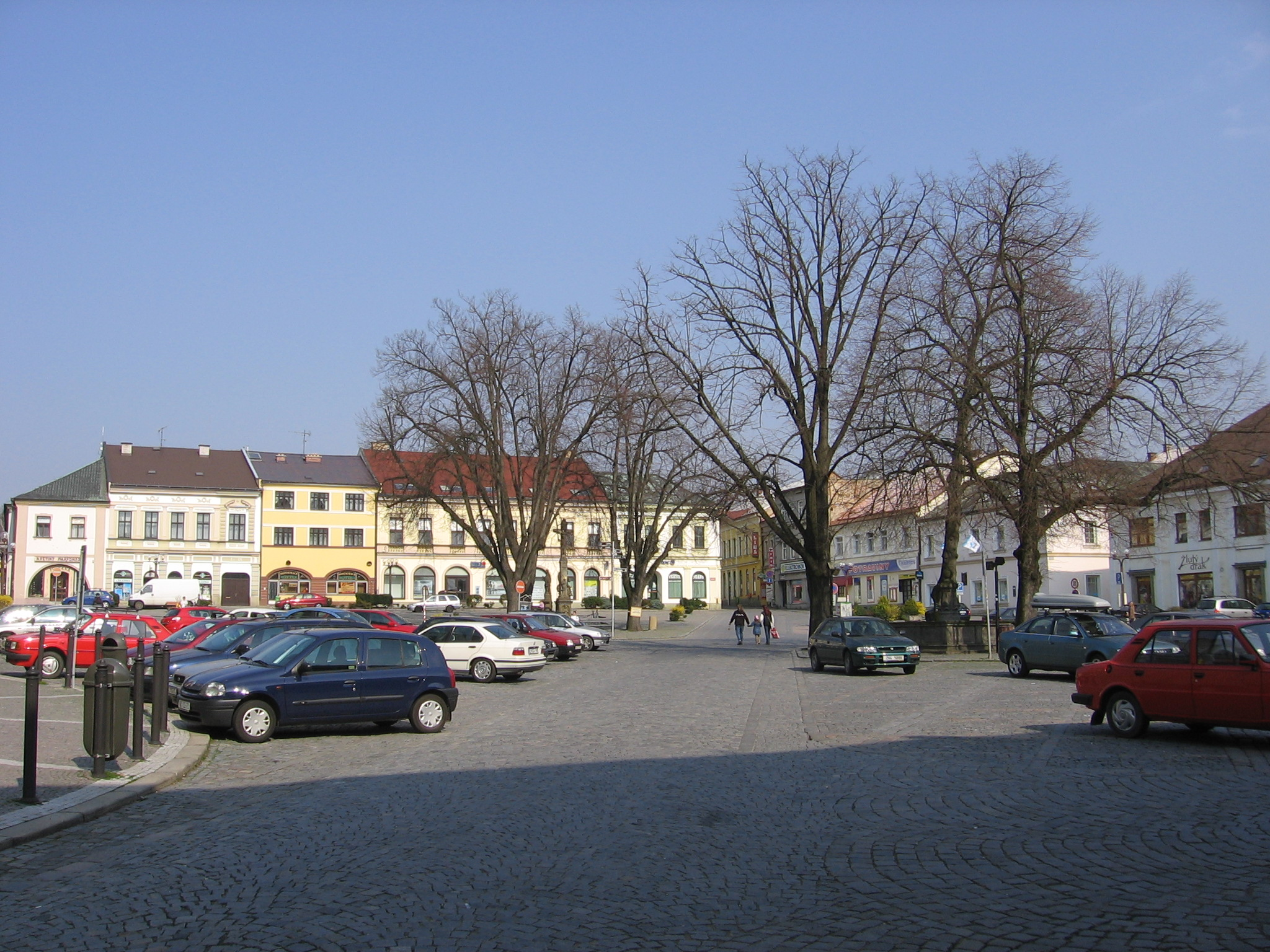 The Old Square in Rychnov nad Kněžnou